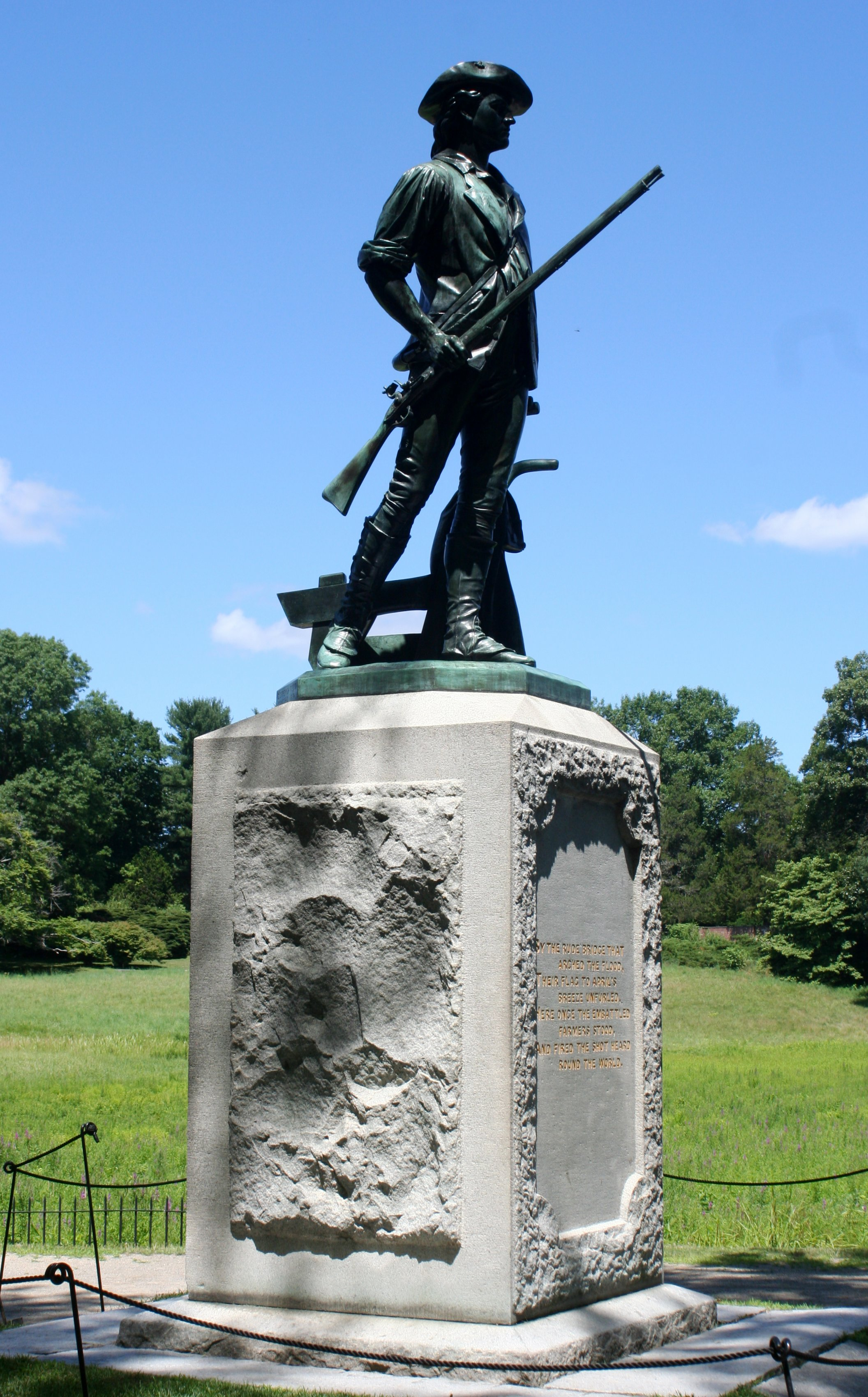 The Minute Man, statue by Daniel Chester French, at the Old North Bridge, Concord, Massachusetts.